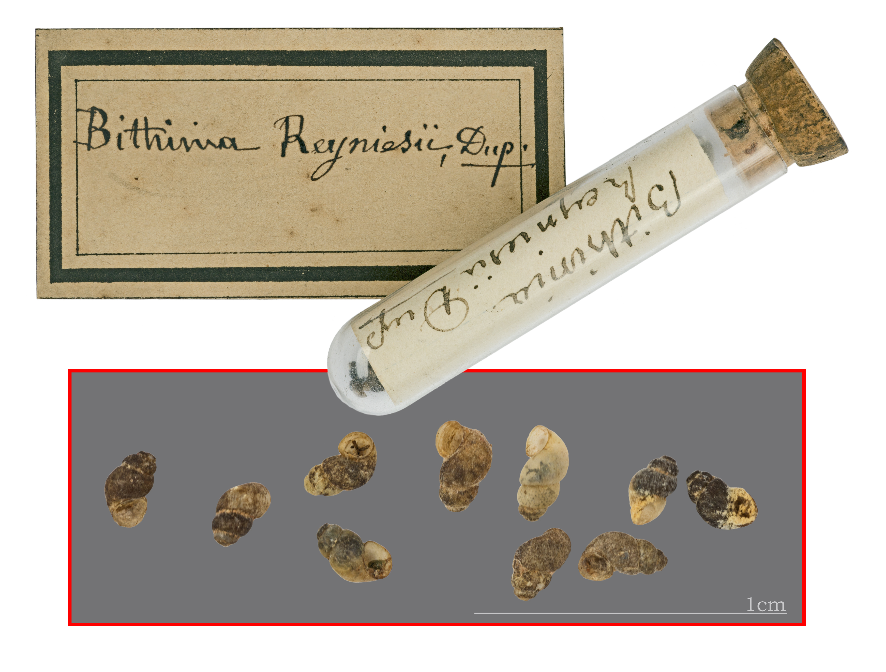 Bythinella reyniesii. Syntype.